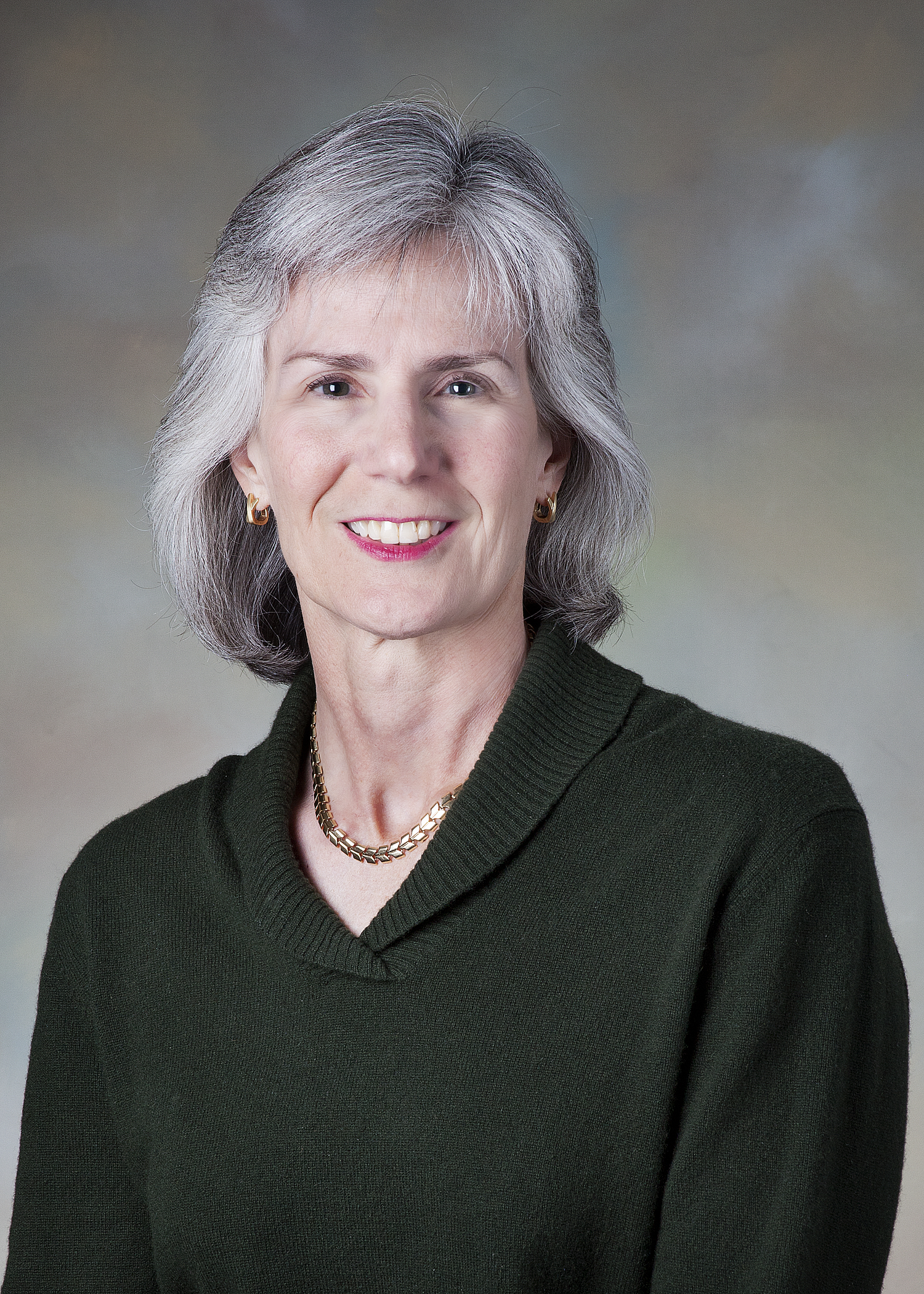 American physicist and administrator Marianne Walck of Sandia National Laboratories in 2012. Portrait released on occasion of her 2015 appointment as vice president of Sandia’s California laboratory.